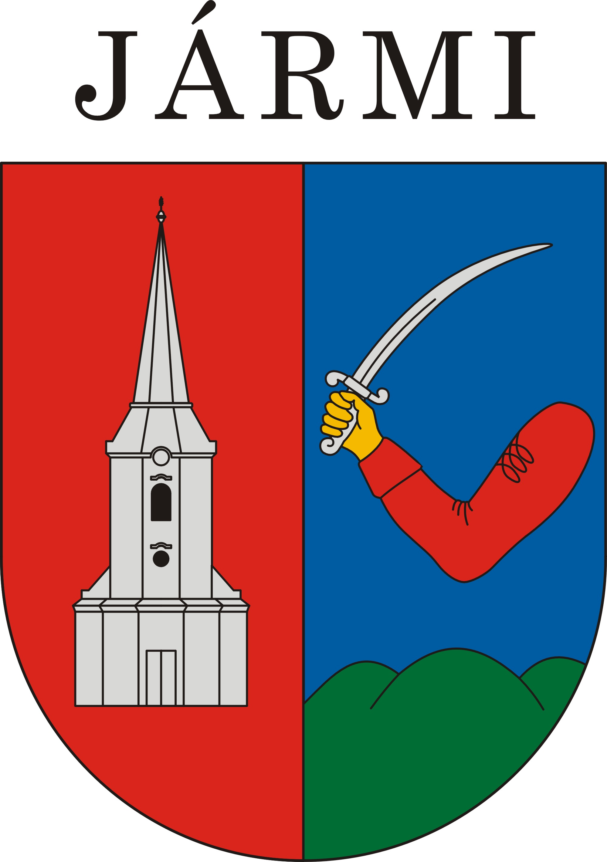 Coat of arms of Jármi, Hungary